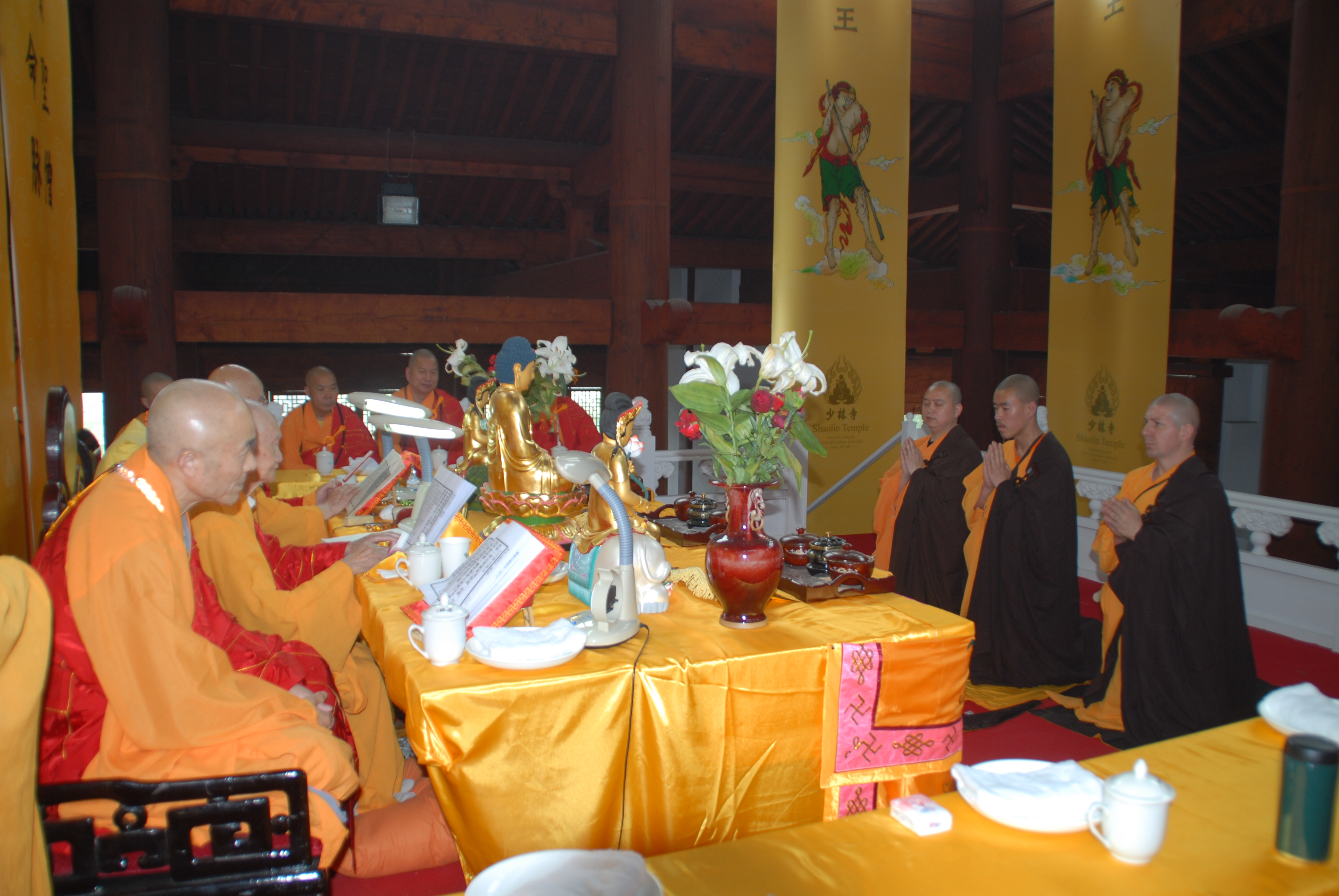 Shi Yan Fan with Masters at Shaolin Temple